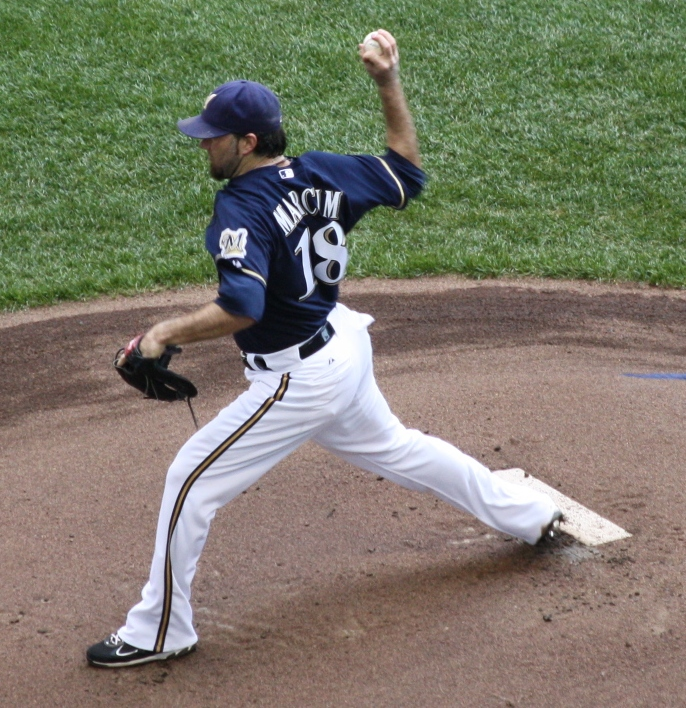 Shaun Marcum pitching at Miller Park, Milwaukee, Wisconsin, USA.